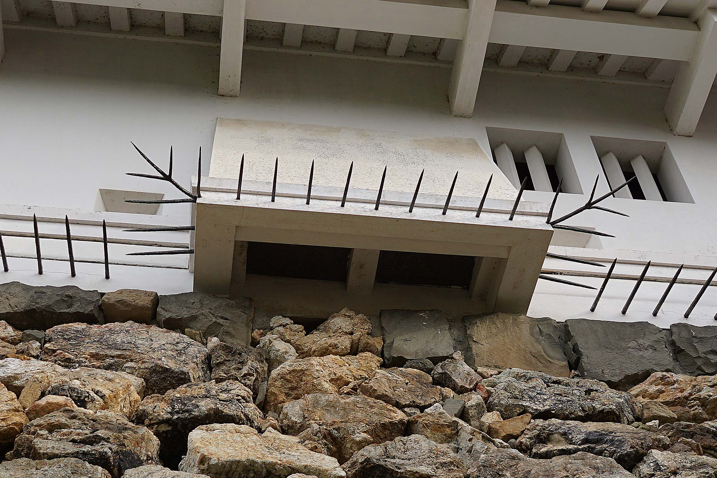 Kochi castle / 高知城